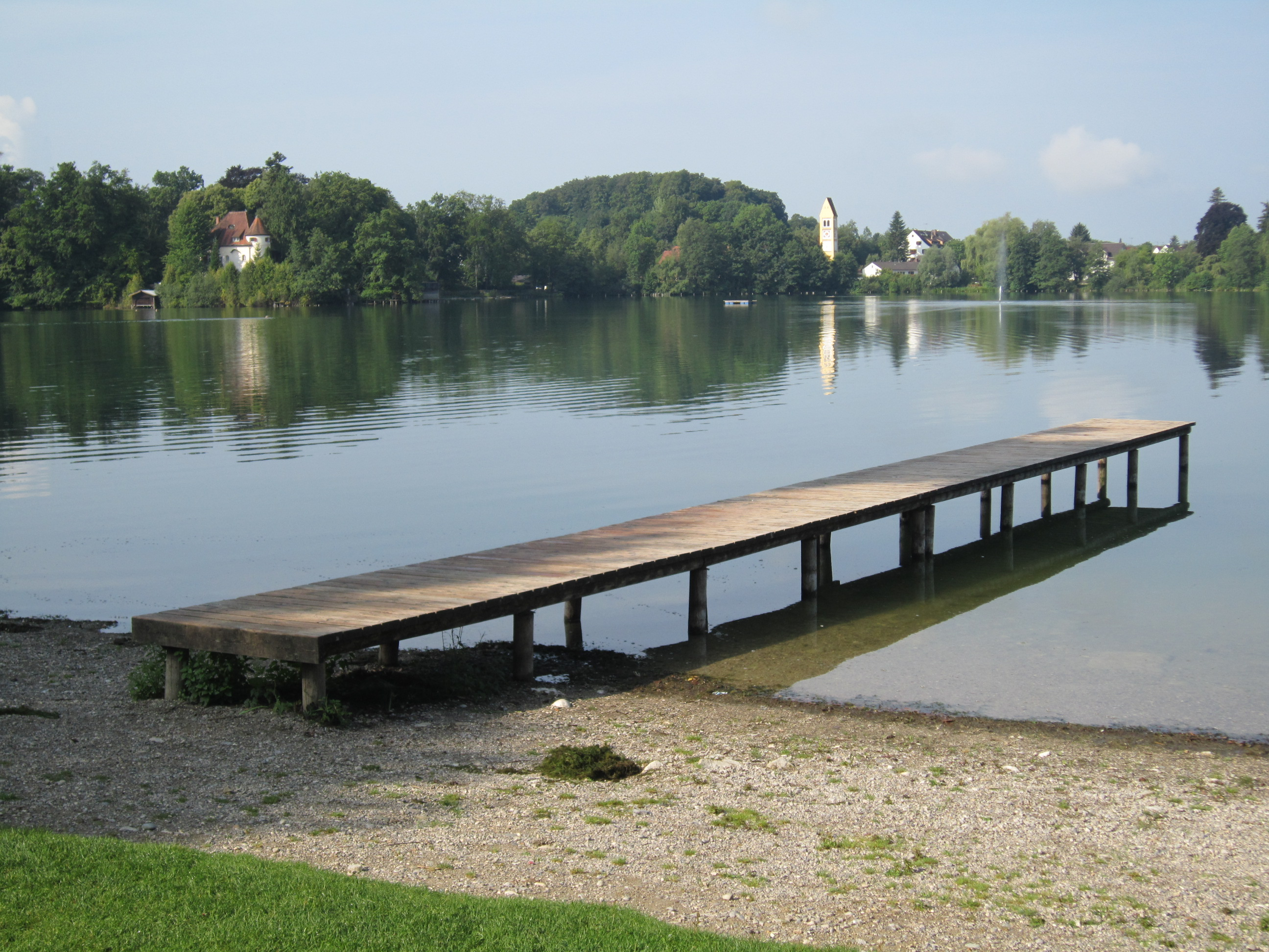 Lake Wessling in Upper Bavaria